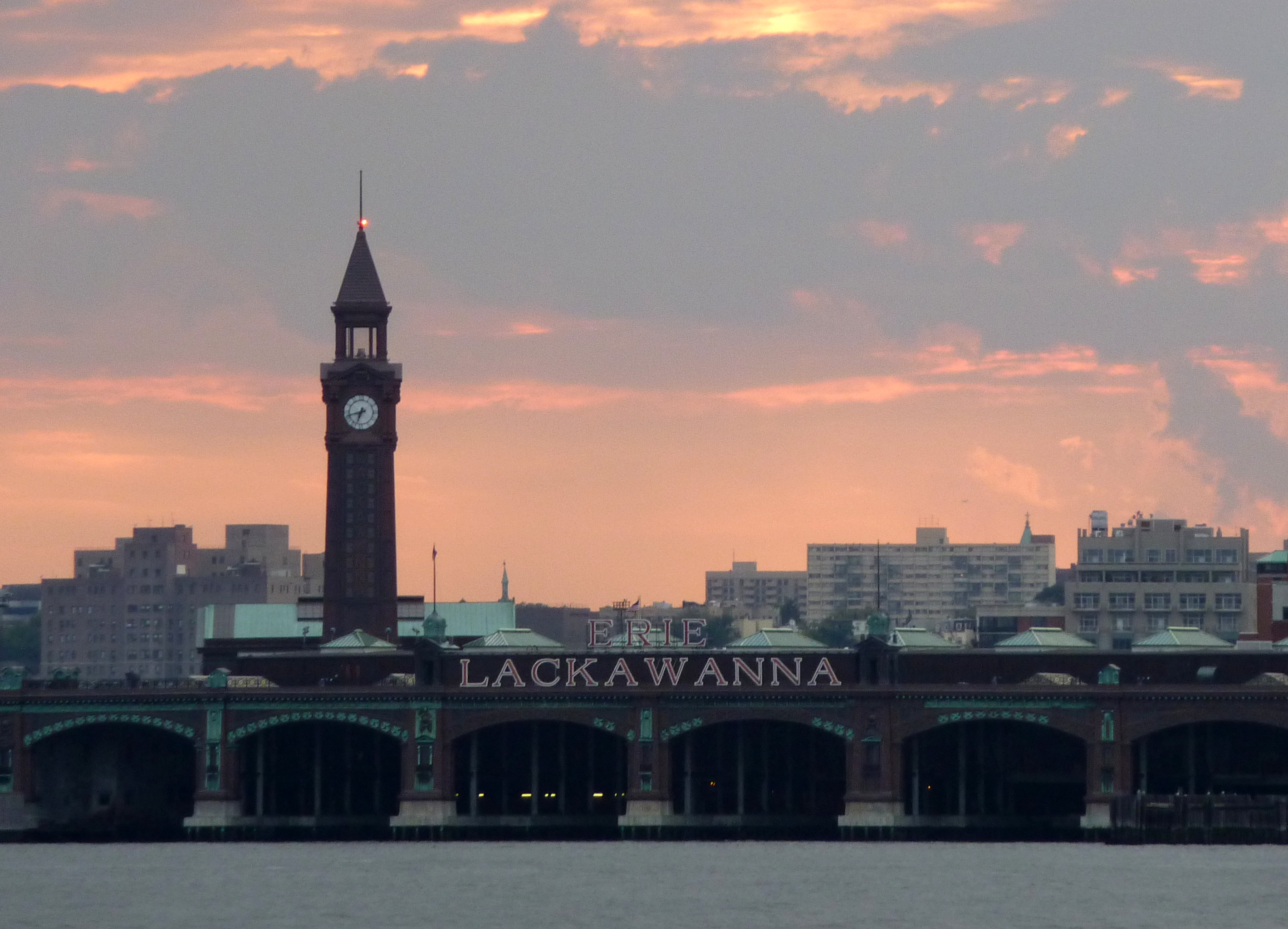 Erie-Lackawanna Railroad Terminal at Hoboken, On the Hudson River at the foot of Hudson Pl. Hoboken